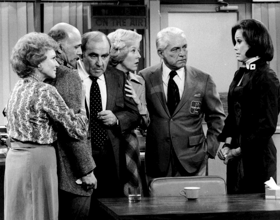 Cast photo from the television program The Mary Tyler Moore Show. After the news that most of the WJM-TV staff has been fired, everyone gathers in the newsroom. From left-Betty White (Sue Ann Nivens), Gavin MacLeod (Murray Slaughter), Ed Asner (Lou Grant), Georgia Engel (Georgette Baxter), Ted Knight (Ted Baxter), Mary Tyler Moore (Mary Richards).